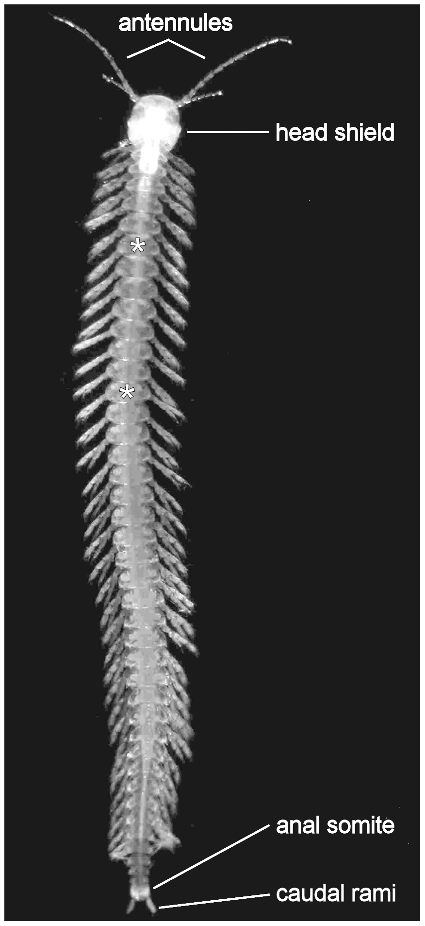 Specimen (Crustacea, Remipedia, Speleonectidae) from the Exuma Cays, Bahamas. Asterisks indicate the location of gonopores.